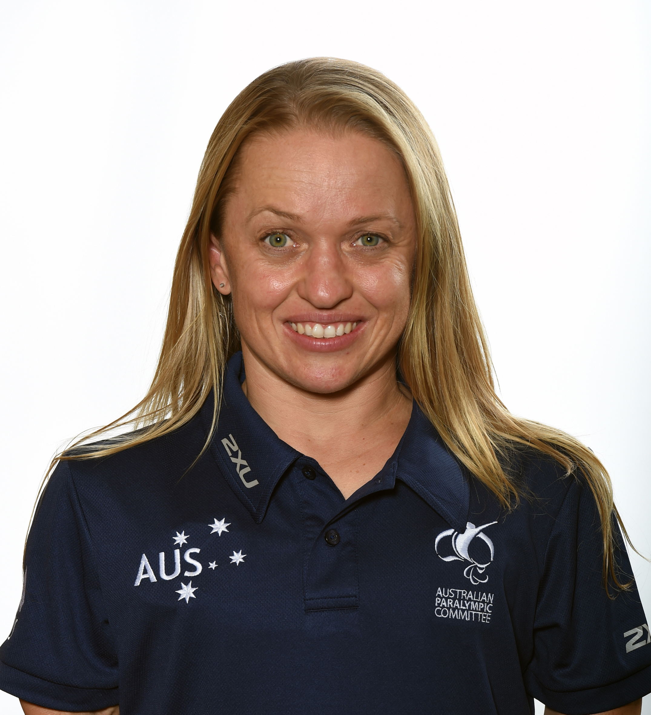 Portrait of 2016 Australian Paralympic Team member Tanya Heubner